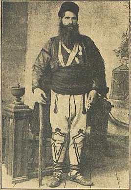 Portrait of SMAC member Ivan Stankov